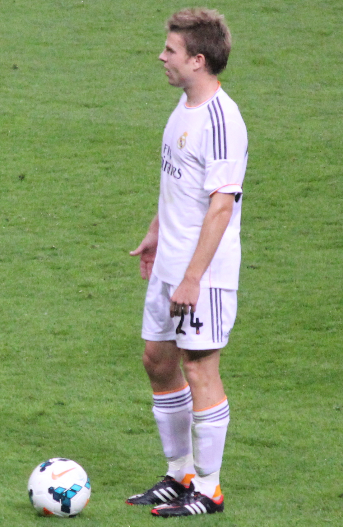 Asier Illarramendi